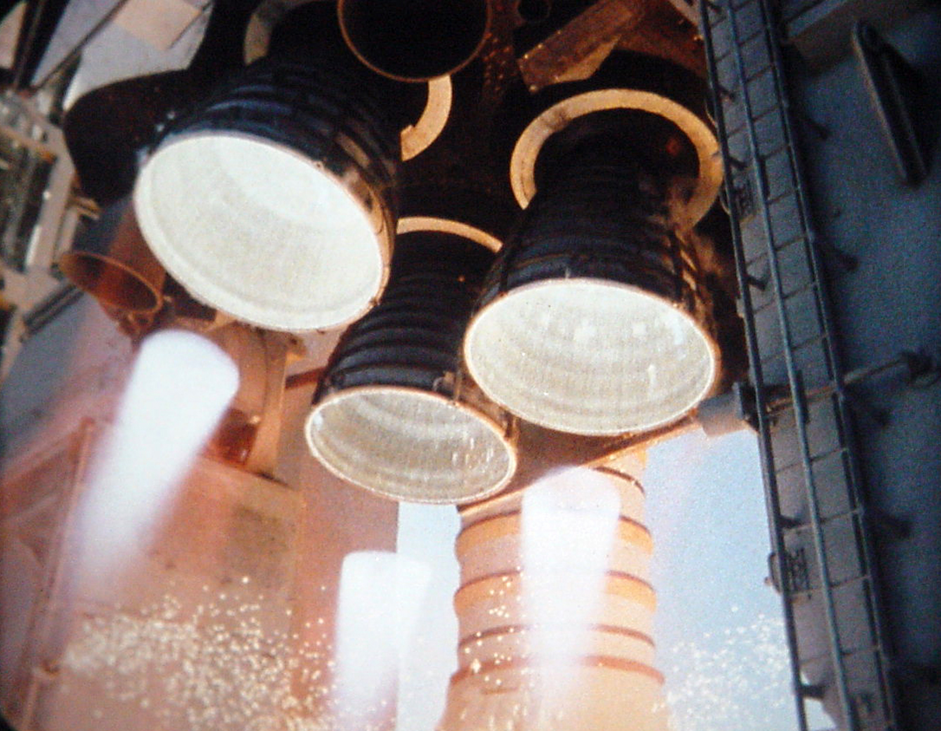 Space Shuttle Atlantis's three Block II RS-25D main engines at liftoff during the launch of STS-110. This image was extracted from engineering motion picture footage taken by a tracking camera.